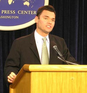 American writer and editor Peter Beinart, of The New Republic.